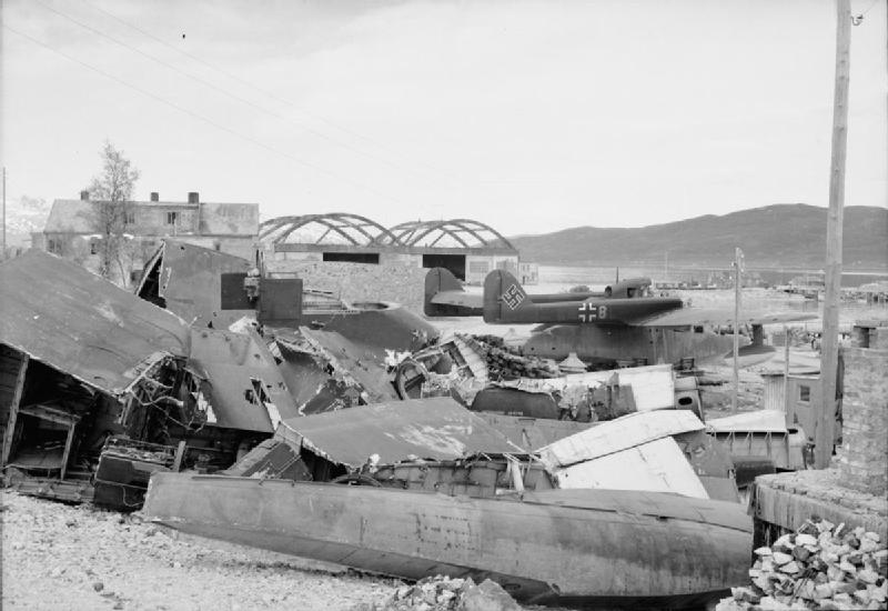 Norway After Liberation, 1945 An abandoned Blohm und Voss Bv 138 flying boat stands close to a pile of wreckage from German seaplanes at Tromso in northern Norway.